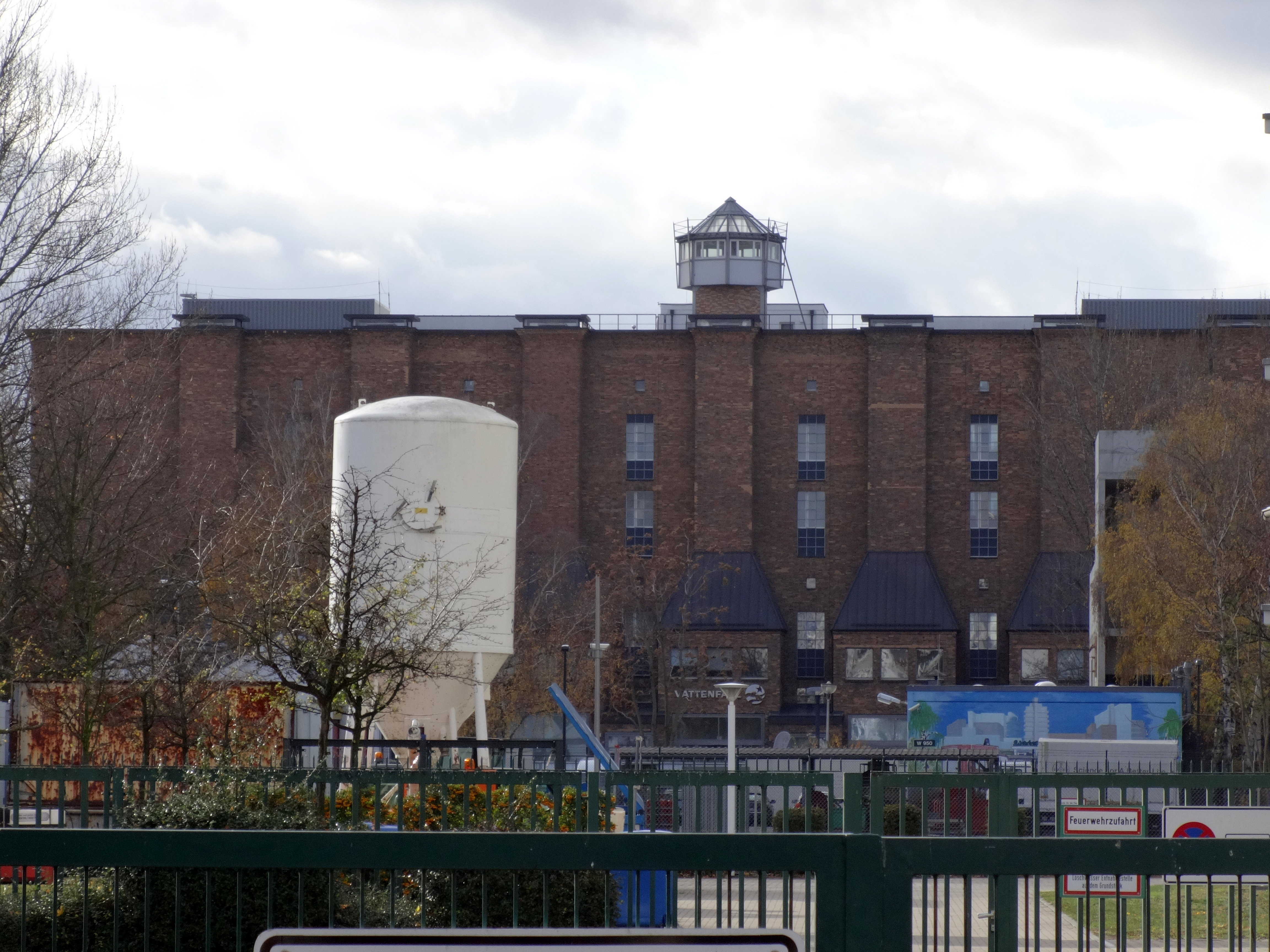 Berlin-Wedding in November